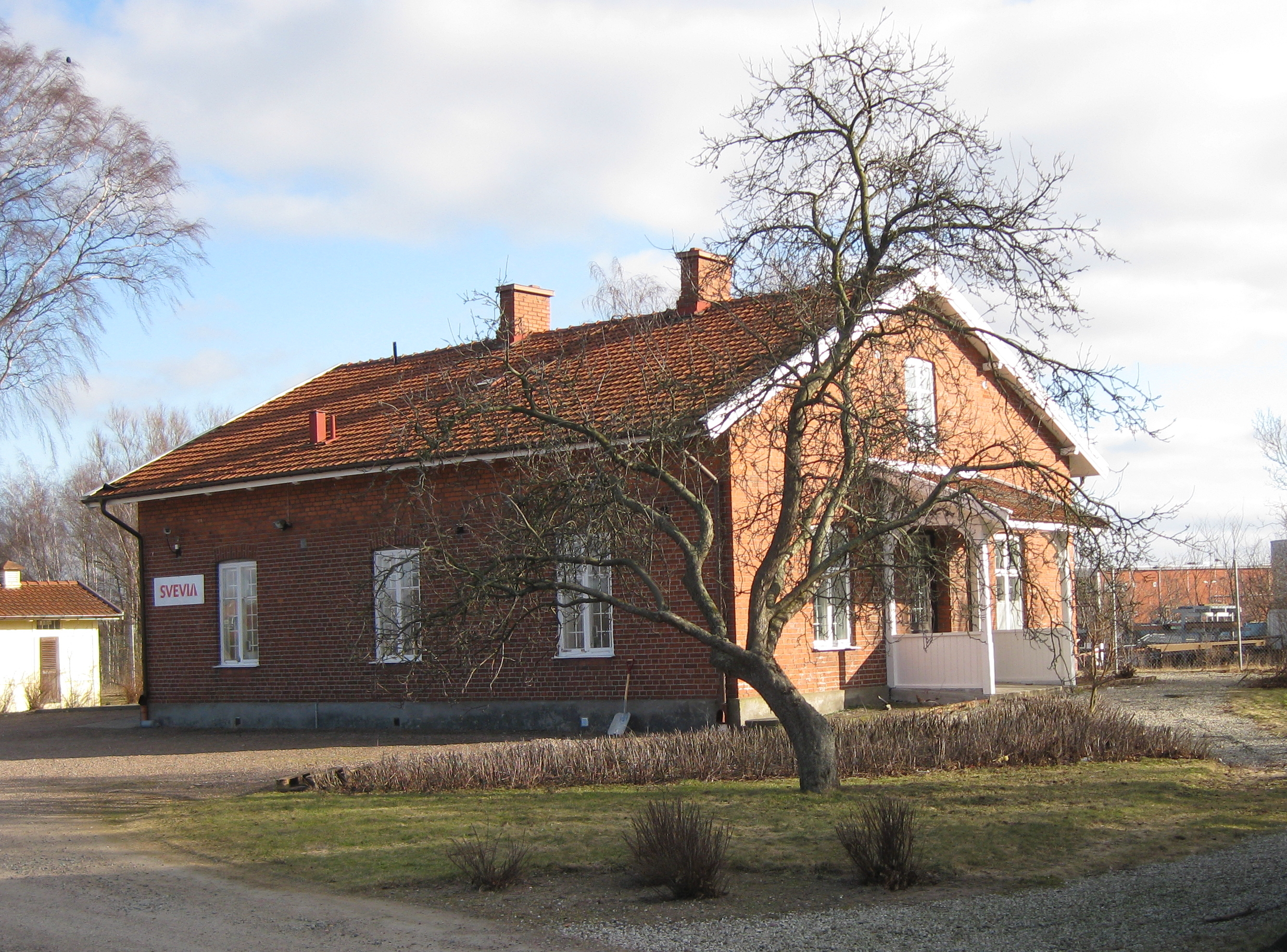 The small abandoned railway station in Sege, Skåne.